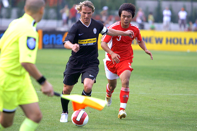 July 2007. FC Juventus summer training ground, Italy. Pavel Nedvěd.